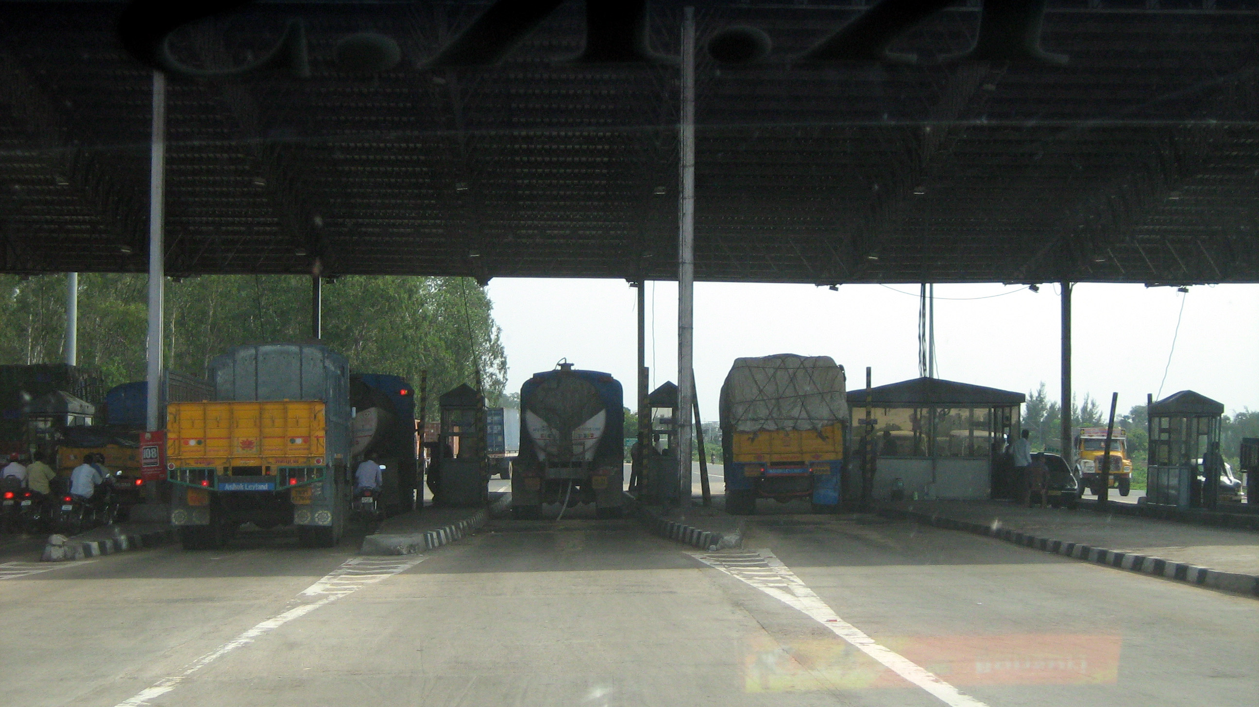 a high way tollgate of Tamil Nadu,India.